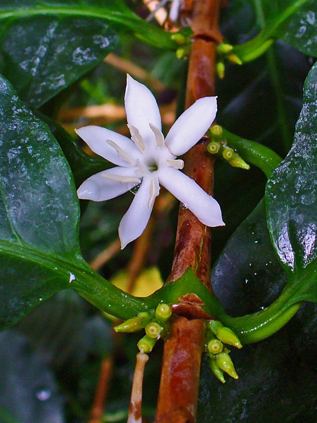 Coffea arabica, Rubiaceae, Arabica Coffee, Mountain Coffee, flower; Botanical Garden KIT, Karlsruhe, Germany. The unroasted dried beans are used in homeopathy as remedy: Coffea (Coff.)